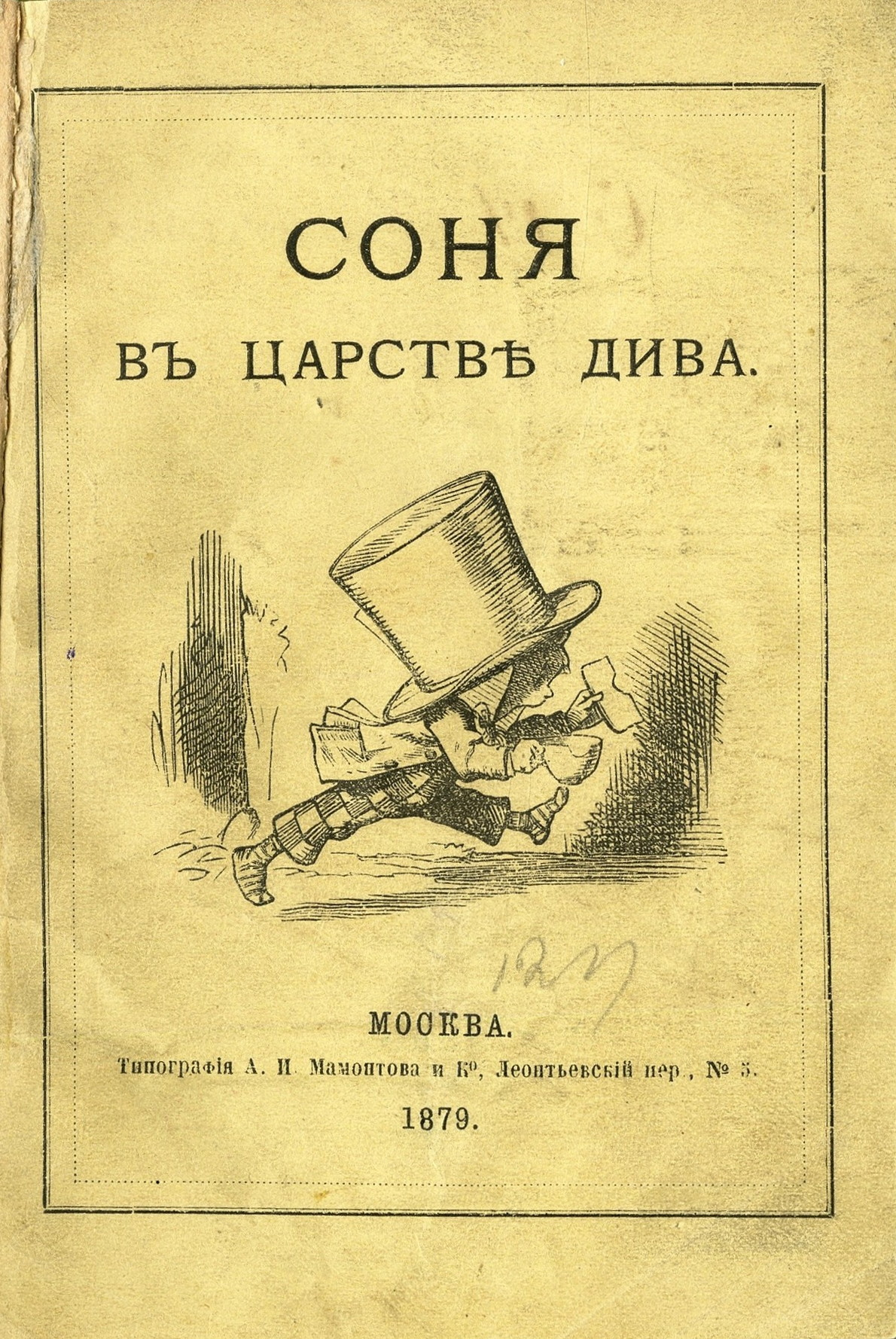 Title page of 1st Russian edition/translation of Carroll's "Alice in Wonderland". Russian title "Sonya v tsarstve diva" literally means "Sonya [russian name, meaning "she's a dreamer"] in the Kingdom of Wonder". Published by A. Mamontov & Co. Typography in 1879 in Moscow, Russia. Translator is anonymous.